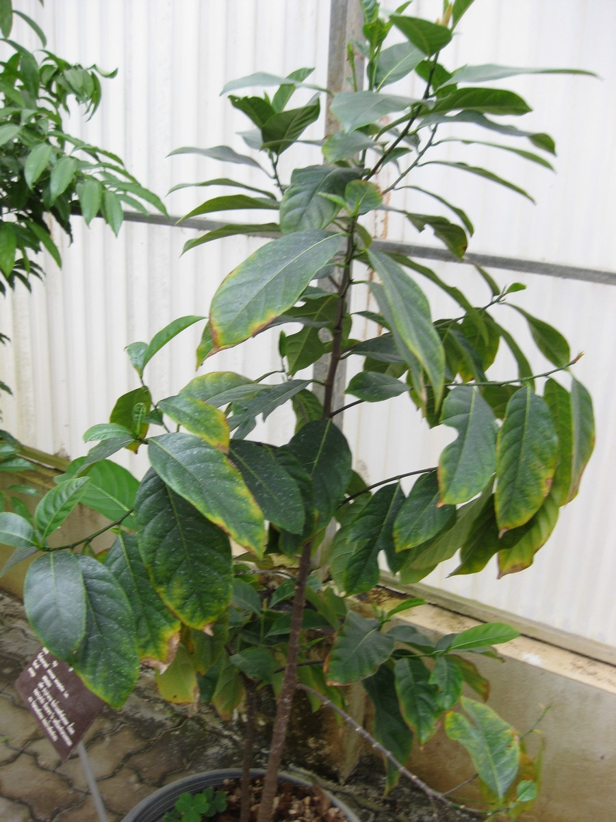 Artocarpus heterophyllus Lam. Photographed at the Queen Sirikit Botanic Garden (Chiang Mai Province, Thailand) in March